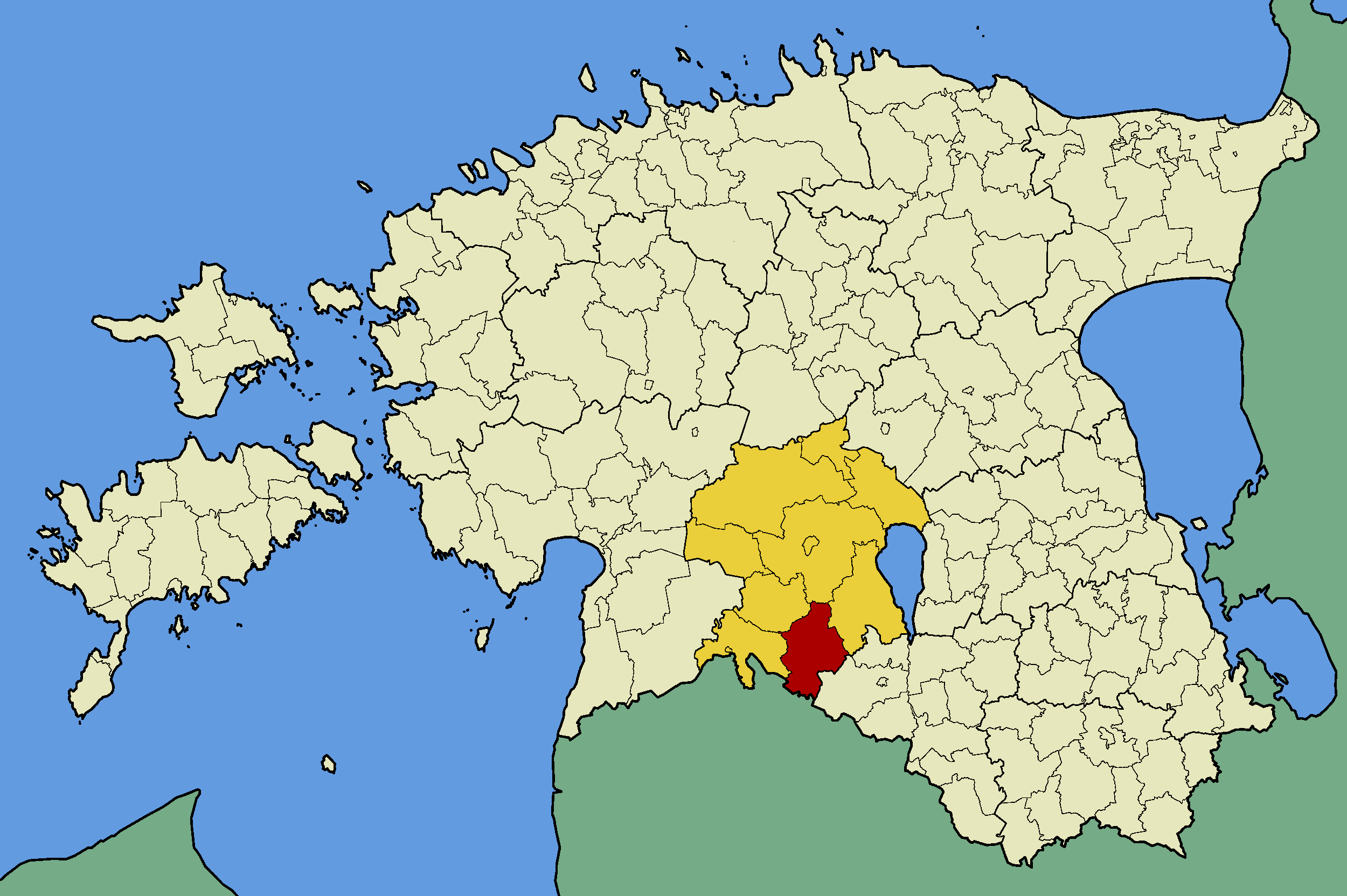 Map of Estonia with borders of municipalities (parishes). Viljandi county and Karksi municipality emphasized.